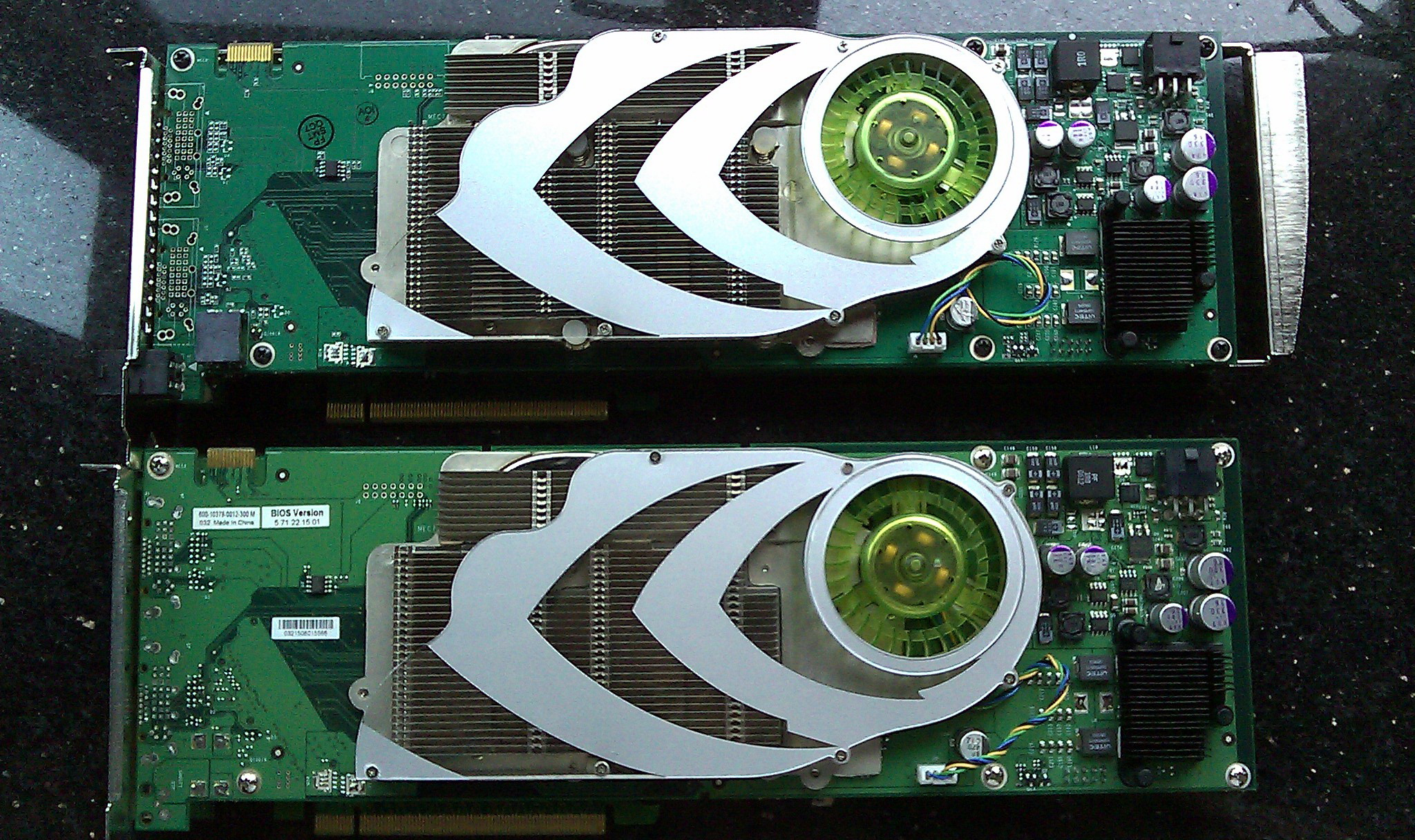 NVIDIA GeForce 7900 GX2 a.k.a. GeForce 7900 GTX Duo